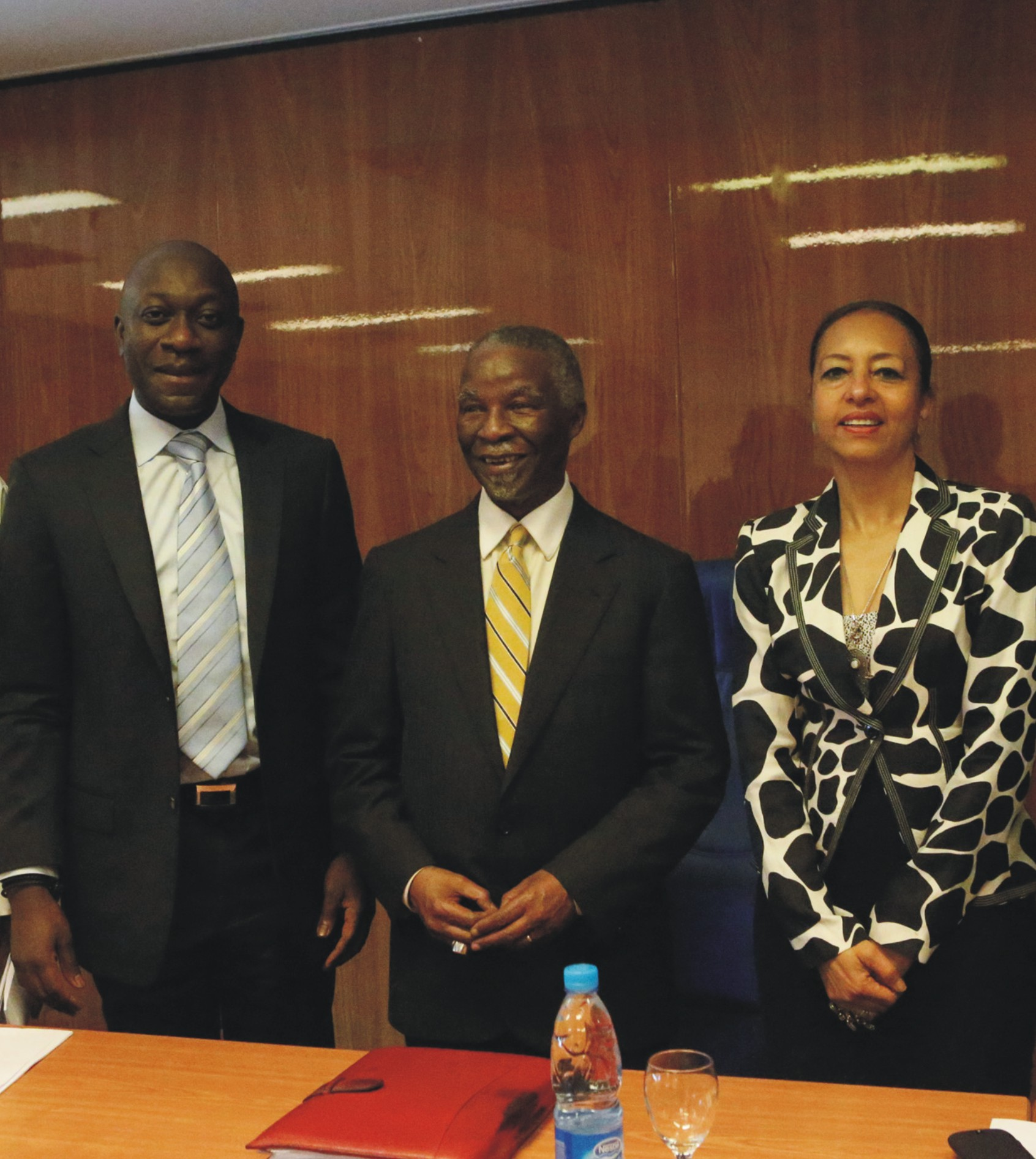 Picture Jibrin with Former South African President